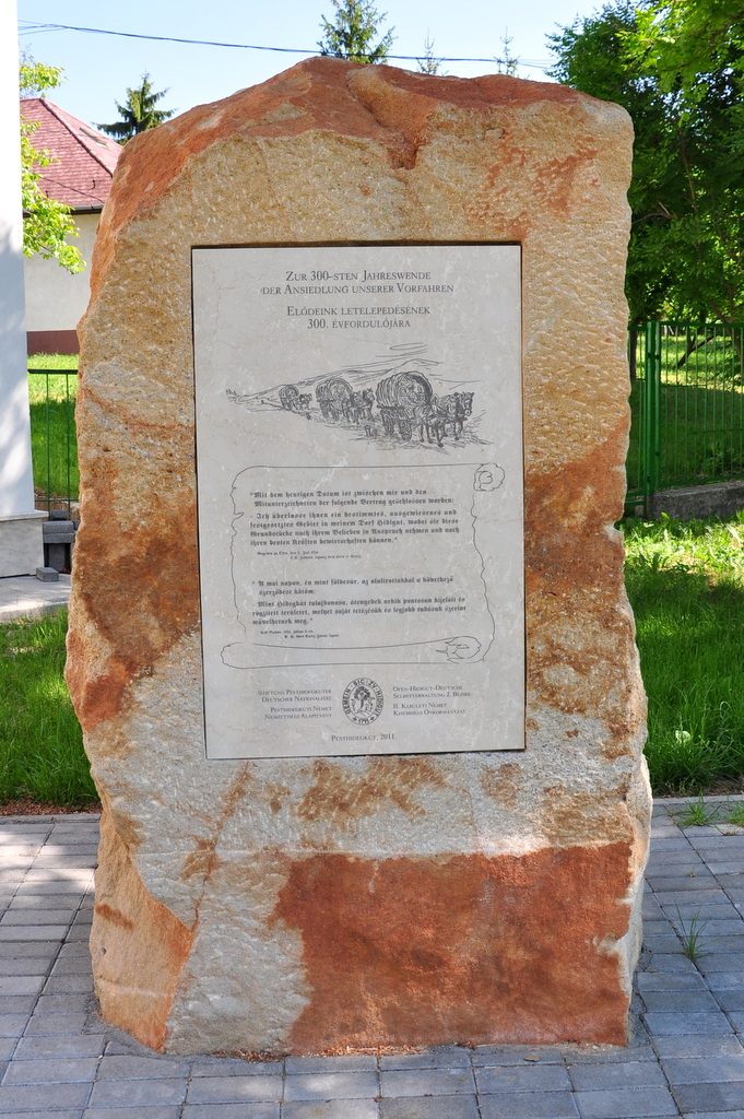 Memorial dedicated to the 300th anniversary of the arrival of the germans to Pesthidegkút Templom street, in the garden of the Church of the Visitation